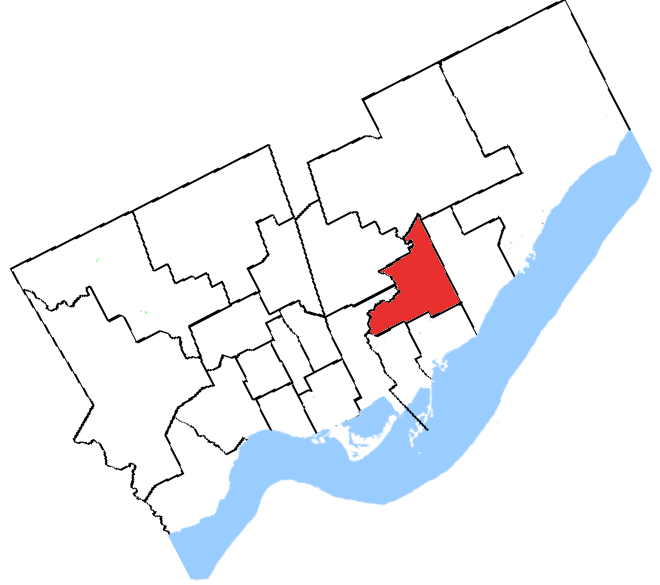 Map of the York_East electoral district showing its borders from 1966 to 1976. Created by SimonP.